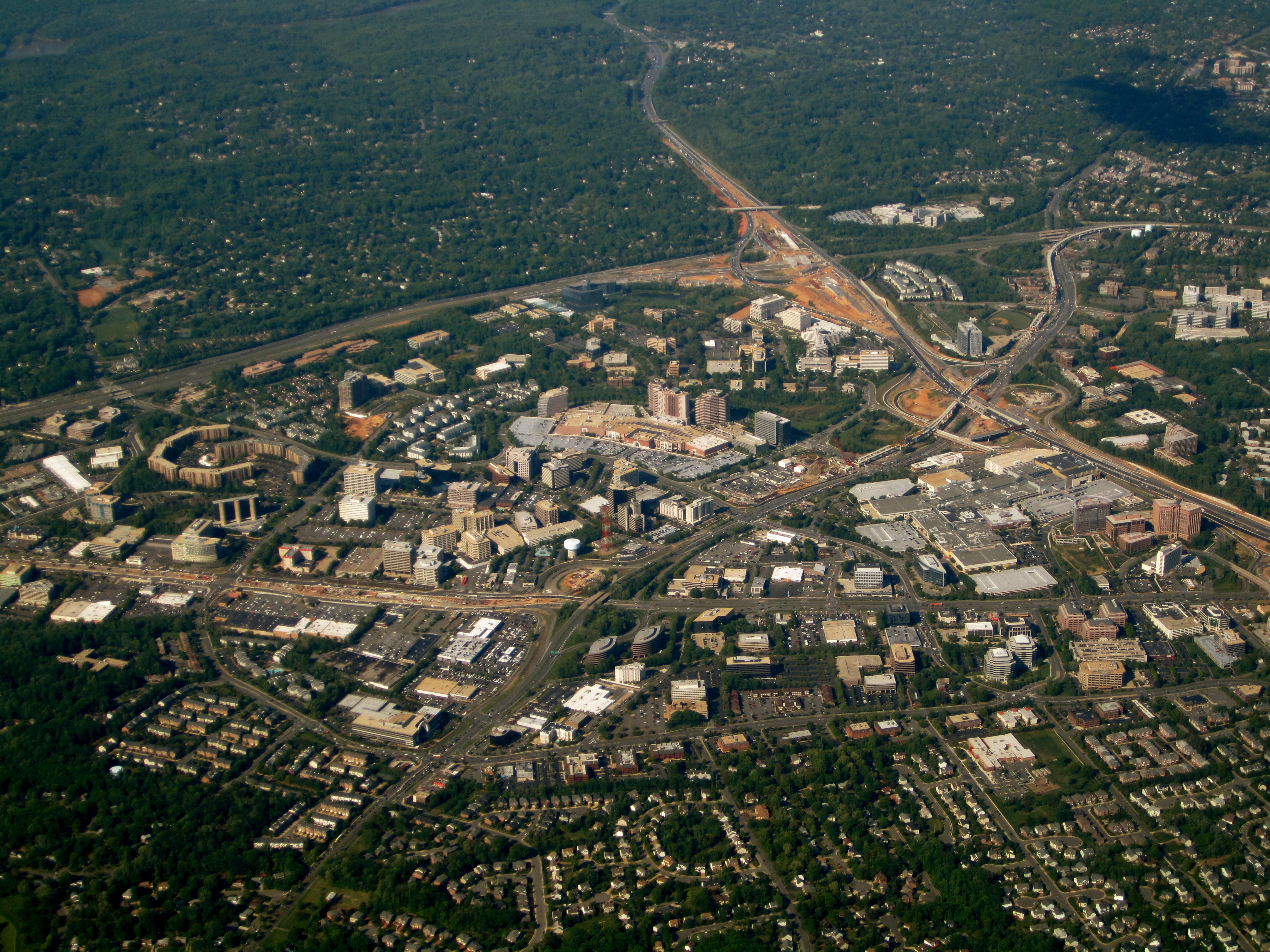 Aerial shot of Tysons Corner, Virginia, showing the WMATA Metro Rail Silver Line construction in its beginning stages.